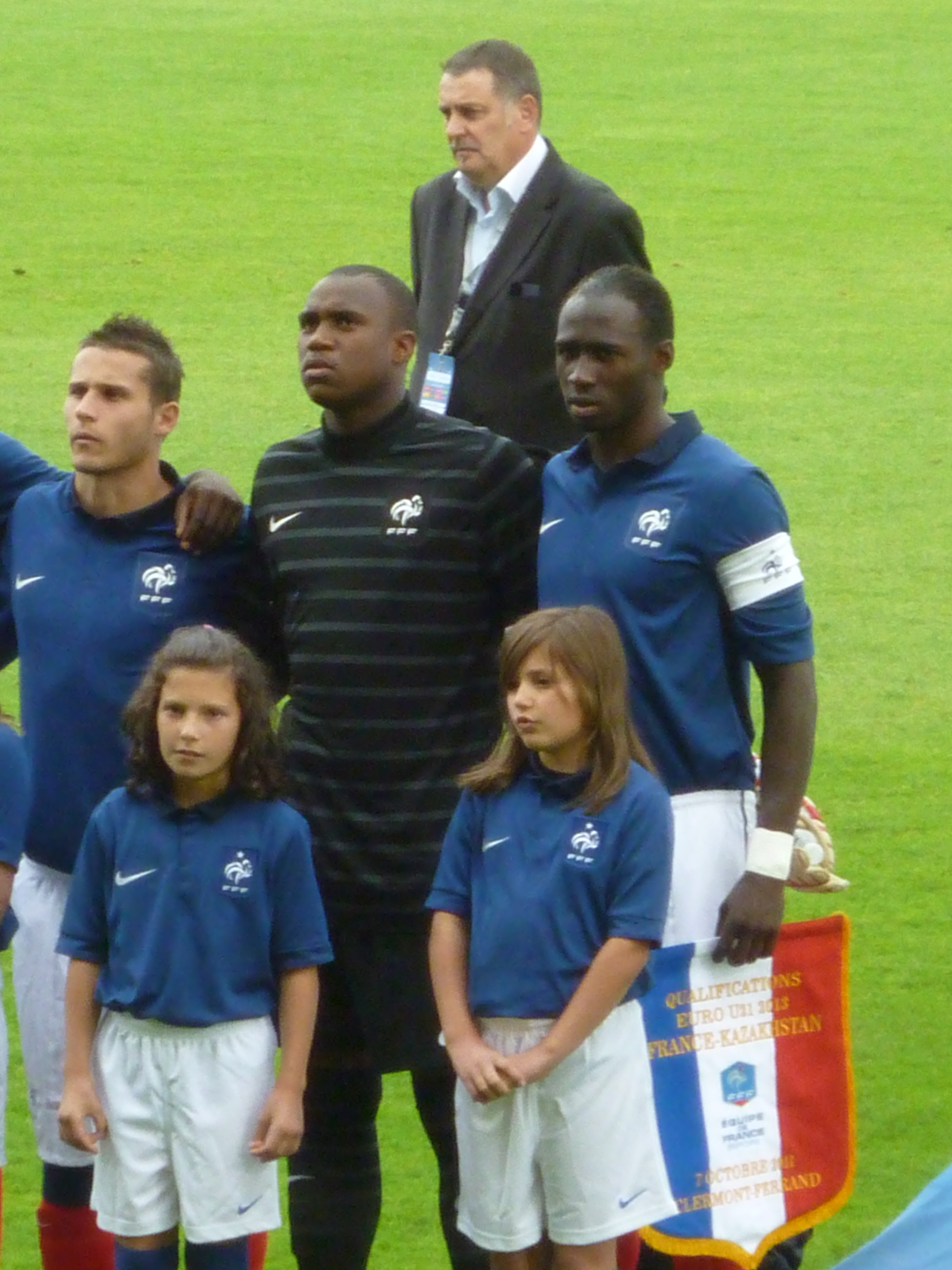 Left to right : Loris Néry, defender, Ali Ahamada, goalkeeper, and Eliaquim Mangala, defender and captain, all of the French U21 national team. Qualifier against Kazakhstan in Clermont-Ferrand.